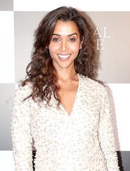 Anupriya Goenka at the screening of Criminal Justice